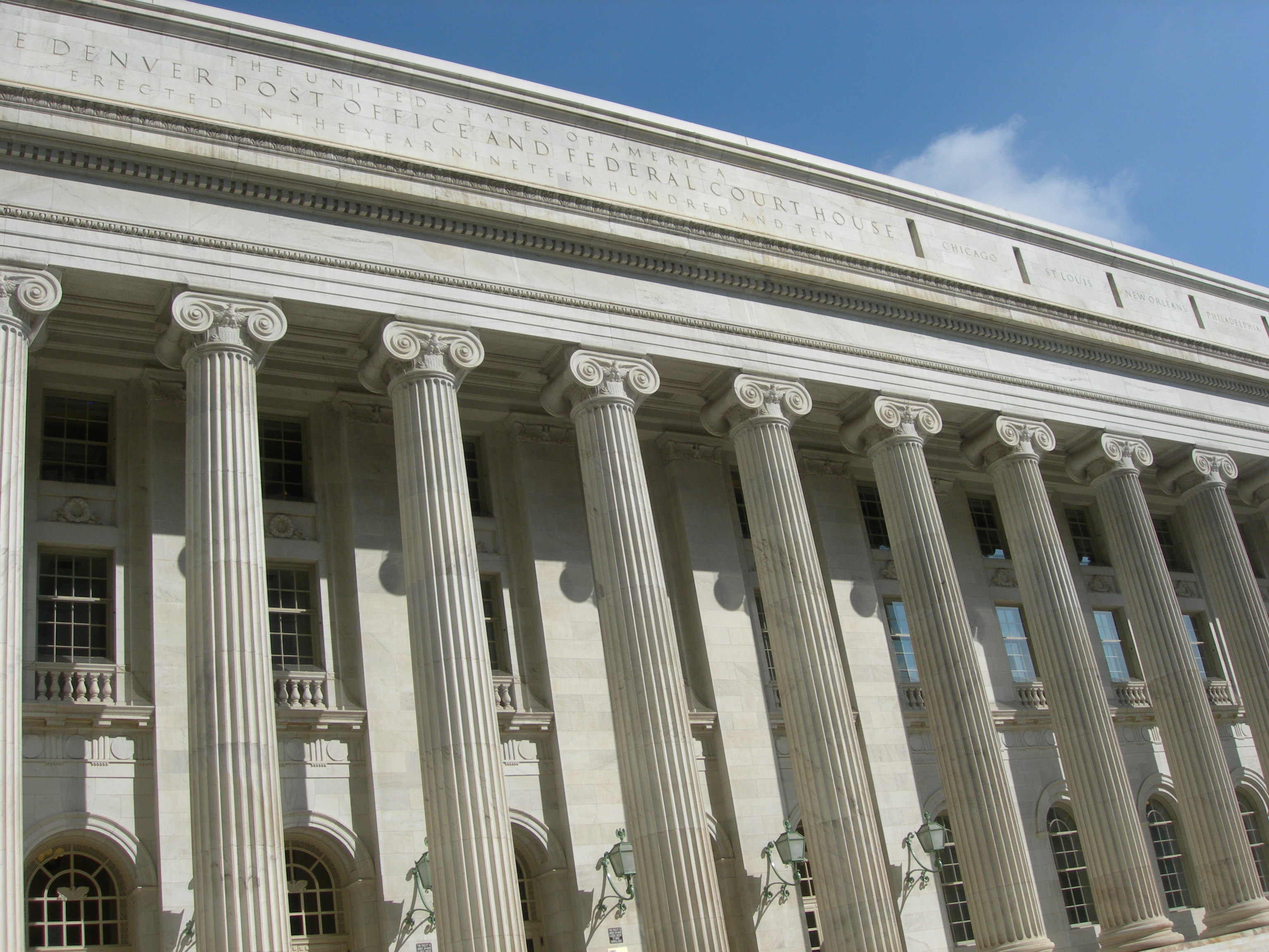 The Byron White United States Courthouse in Denver, Colorado, used by the United States Postal Service and the United States Court of Appeals for the Tenth Circuit.